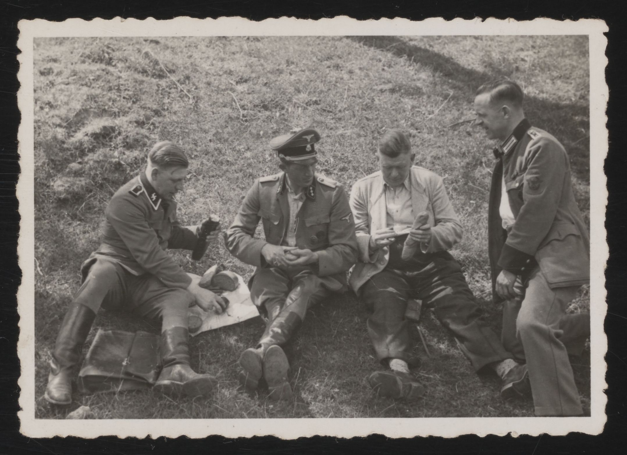 From trip to Potsdam/Berlin in 1943